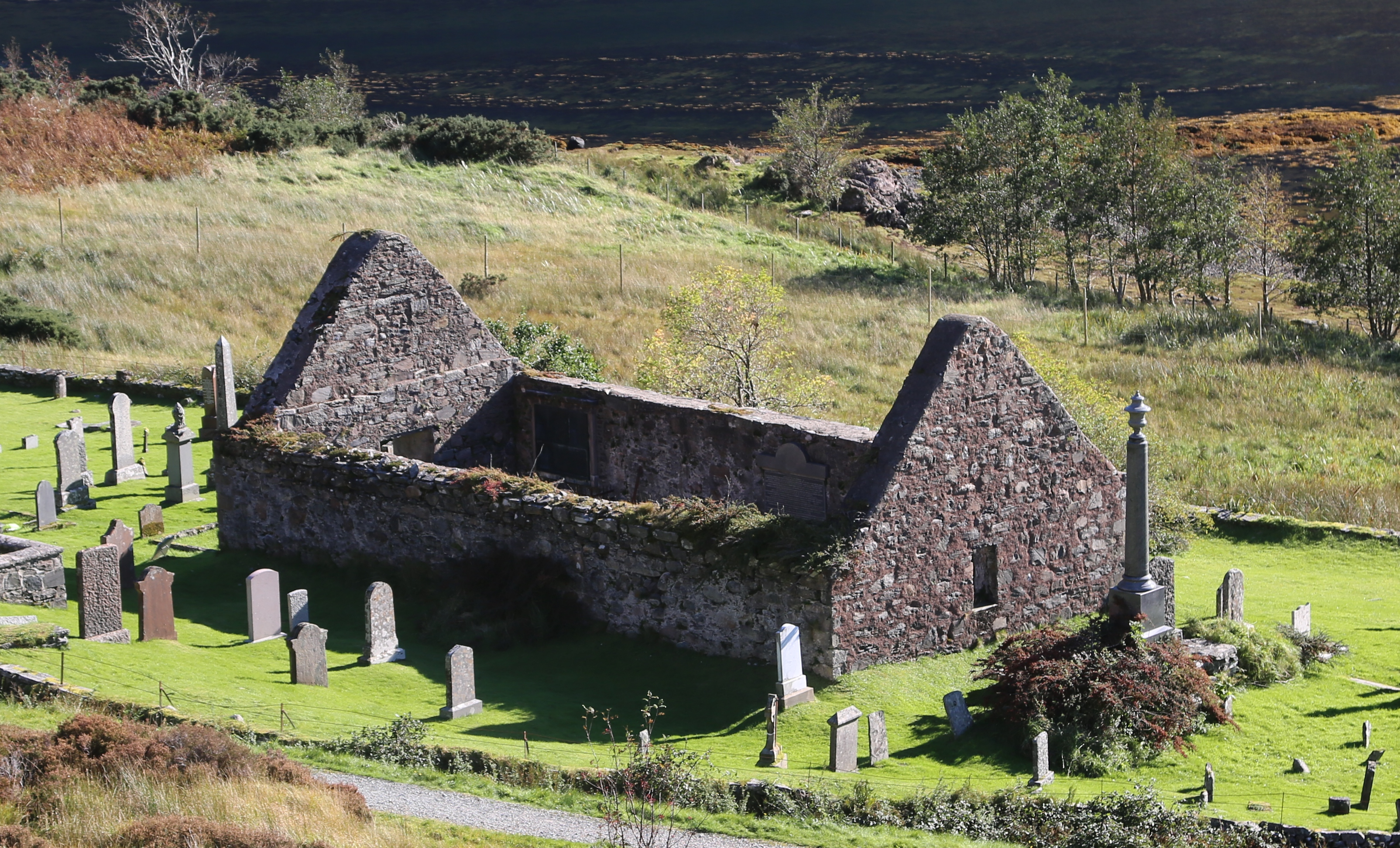 Ruins of St Dubhthach's Church Morvich